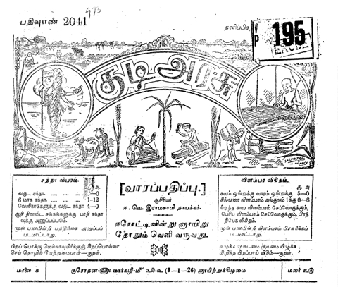 Masthead of Kudi Arasu a Tamil magazine run by Periyar E. V. Ramasamy.